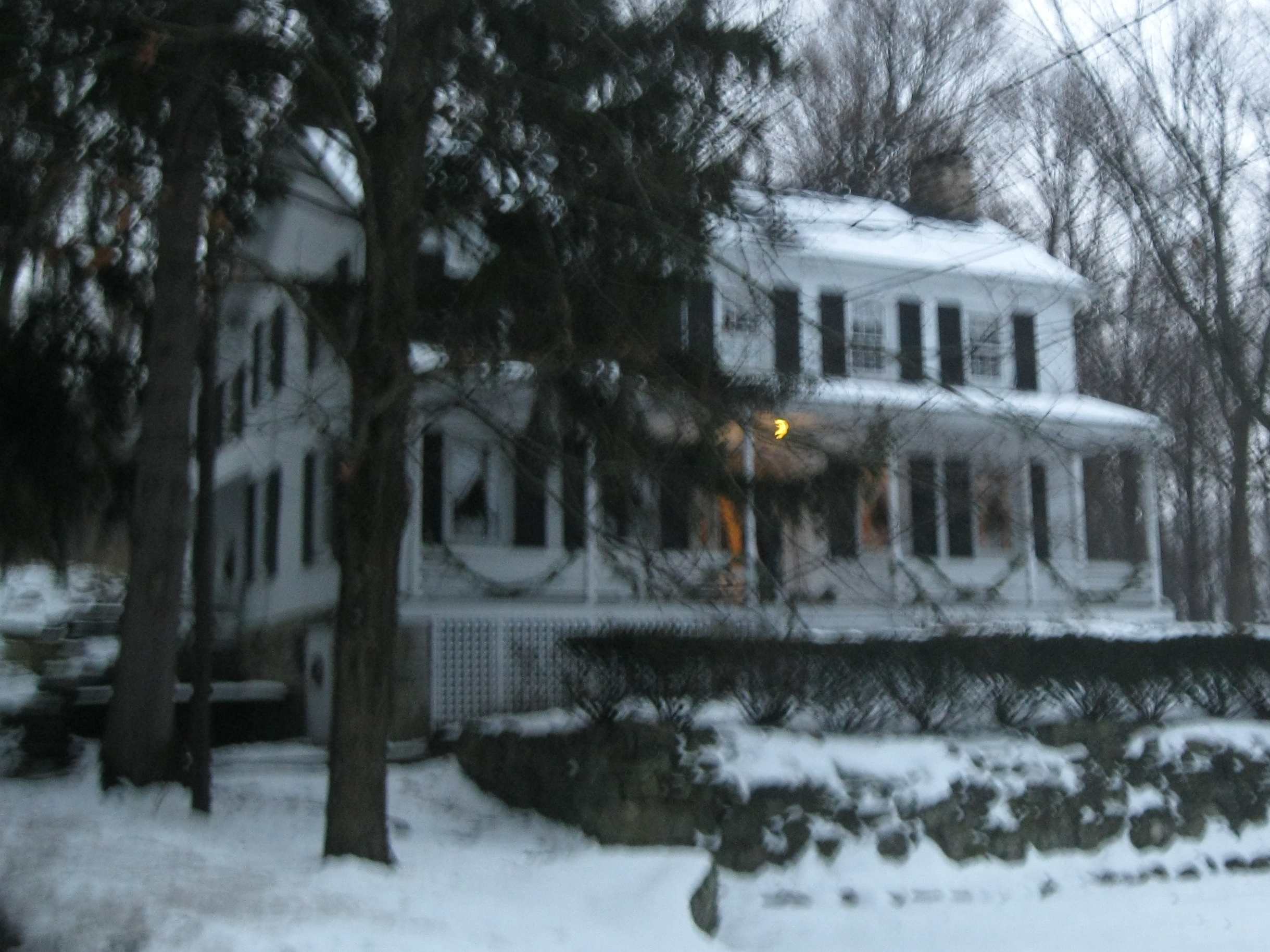 The Hill House in the village of Boalsburg, in Harris Township, Centre County, Pennsylvania, USA. Built around 1830 it was added to the National Register of Historic Places in 1977.